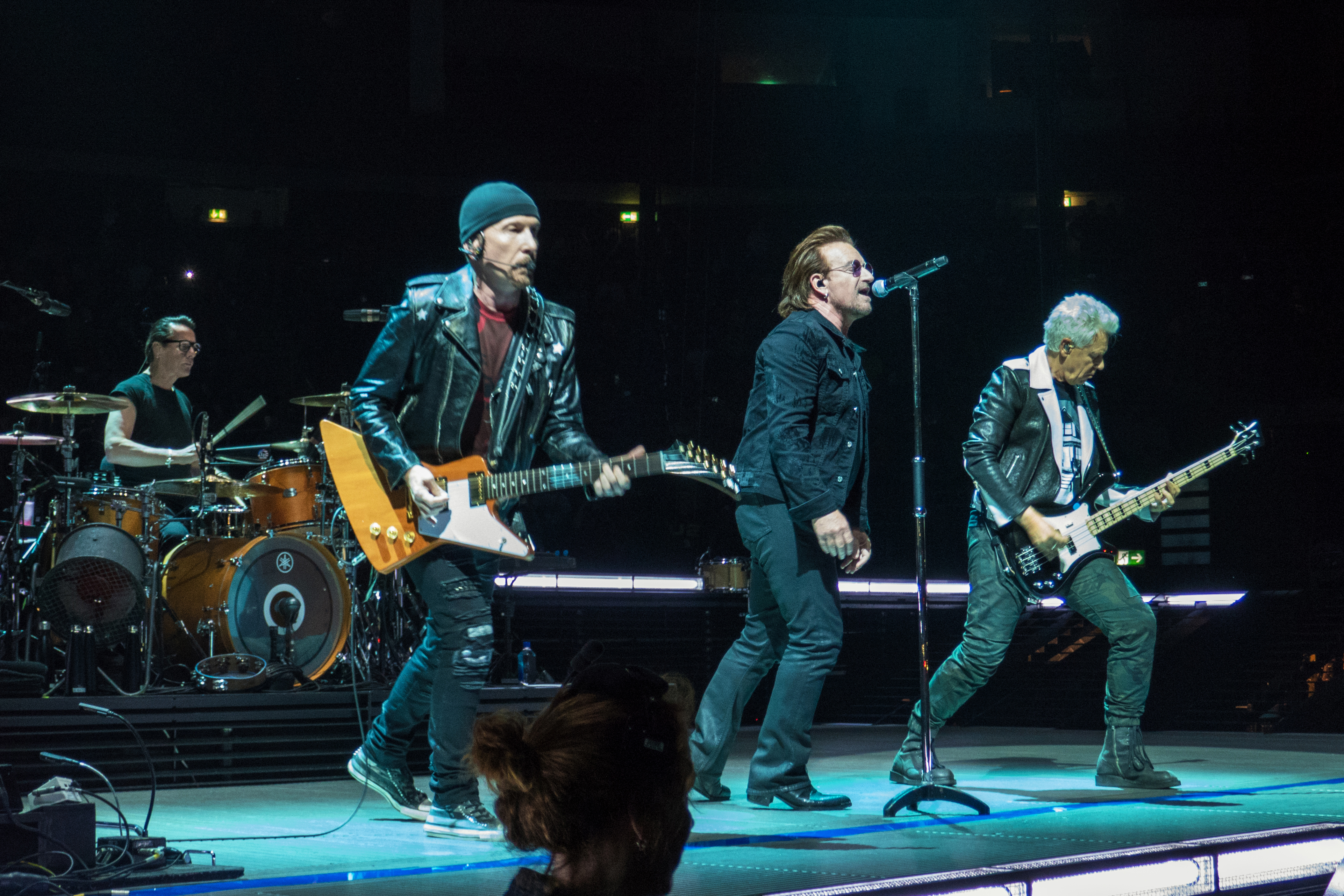 U2 performing at Mercedes-Benz Arena in Berlin, Germany on August 31, 2018 during the Experience + Innocence Tour